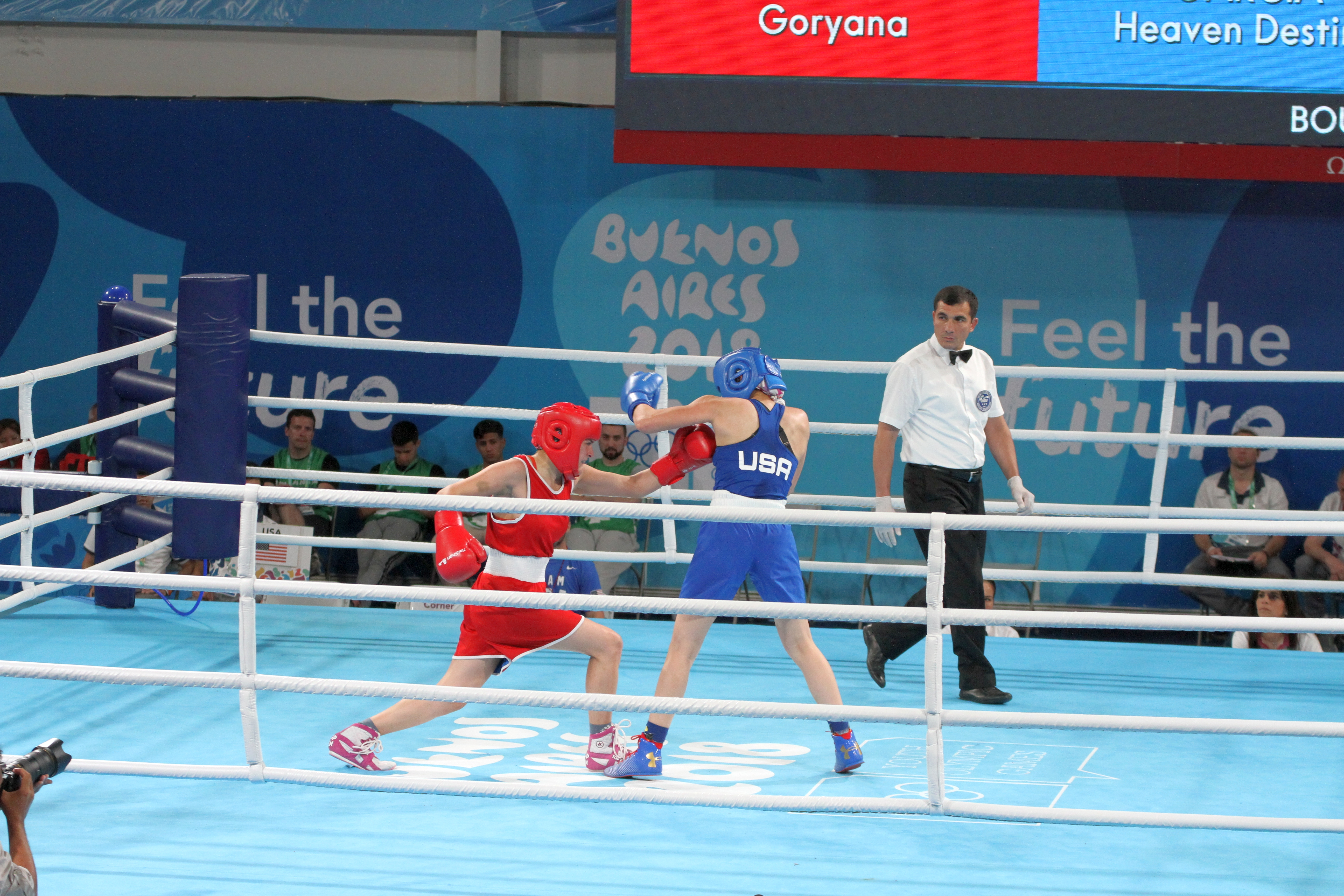 Boxing at the 2018 Summer Youth Olympics on 18 October 2018 – Girl's flyweight Bronze Medal Bout - Heaven Destiny Garcia (USA, blue) beats Goryanana Stoeva (Bulgaria, red) 5-0; Referee is Ishanguly Meretnyyazov (Turkmenistan).